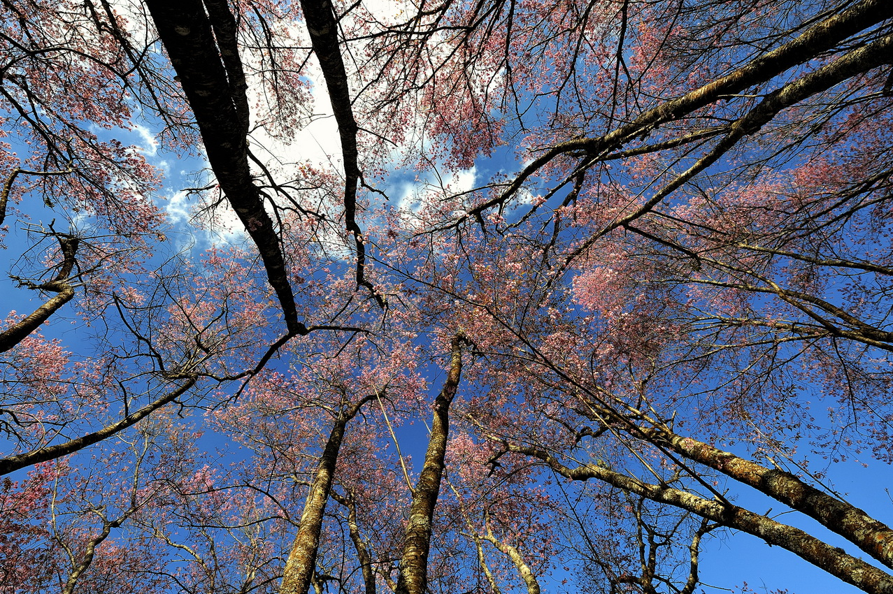 Khun Sathan National Park2